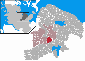 This map shows the area of the Gemeinde (municipality) Wahlstorf in the Kreis (district) Plön, Schleswig-Holstein, Germany.